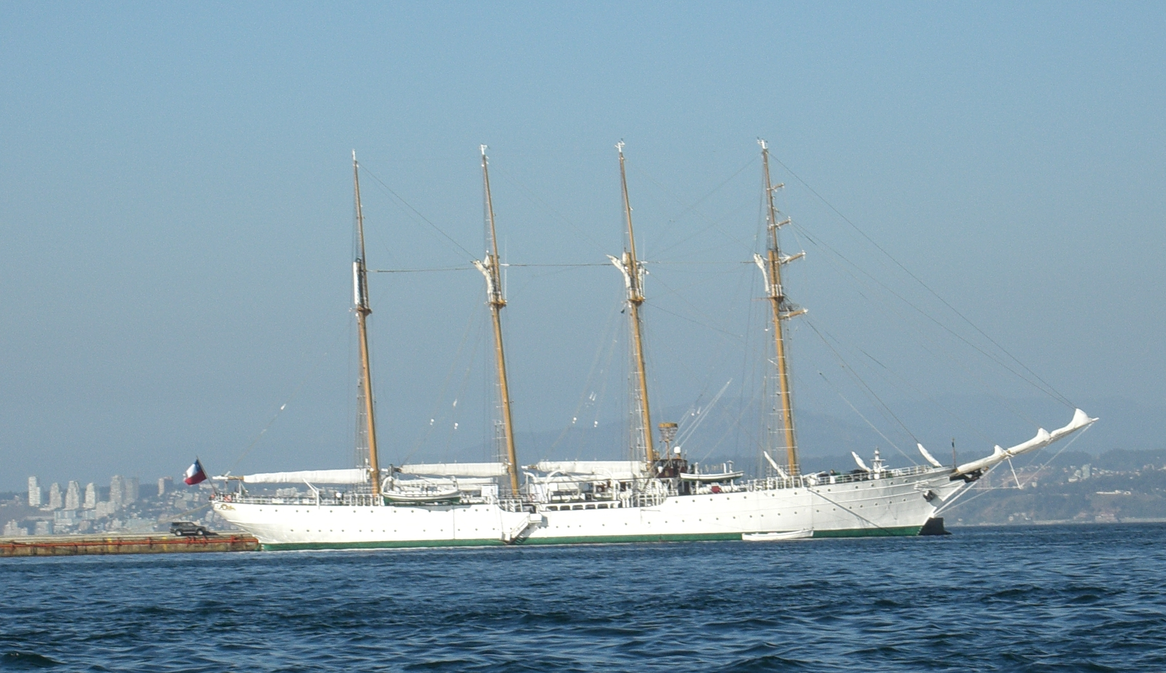 Chilean Navy sailing vessel Esmeralda at dock, Valparaiso, Chile.